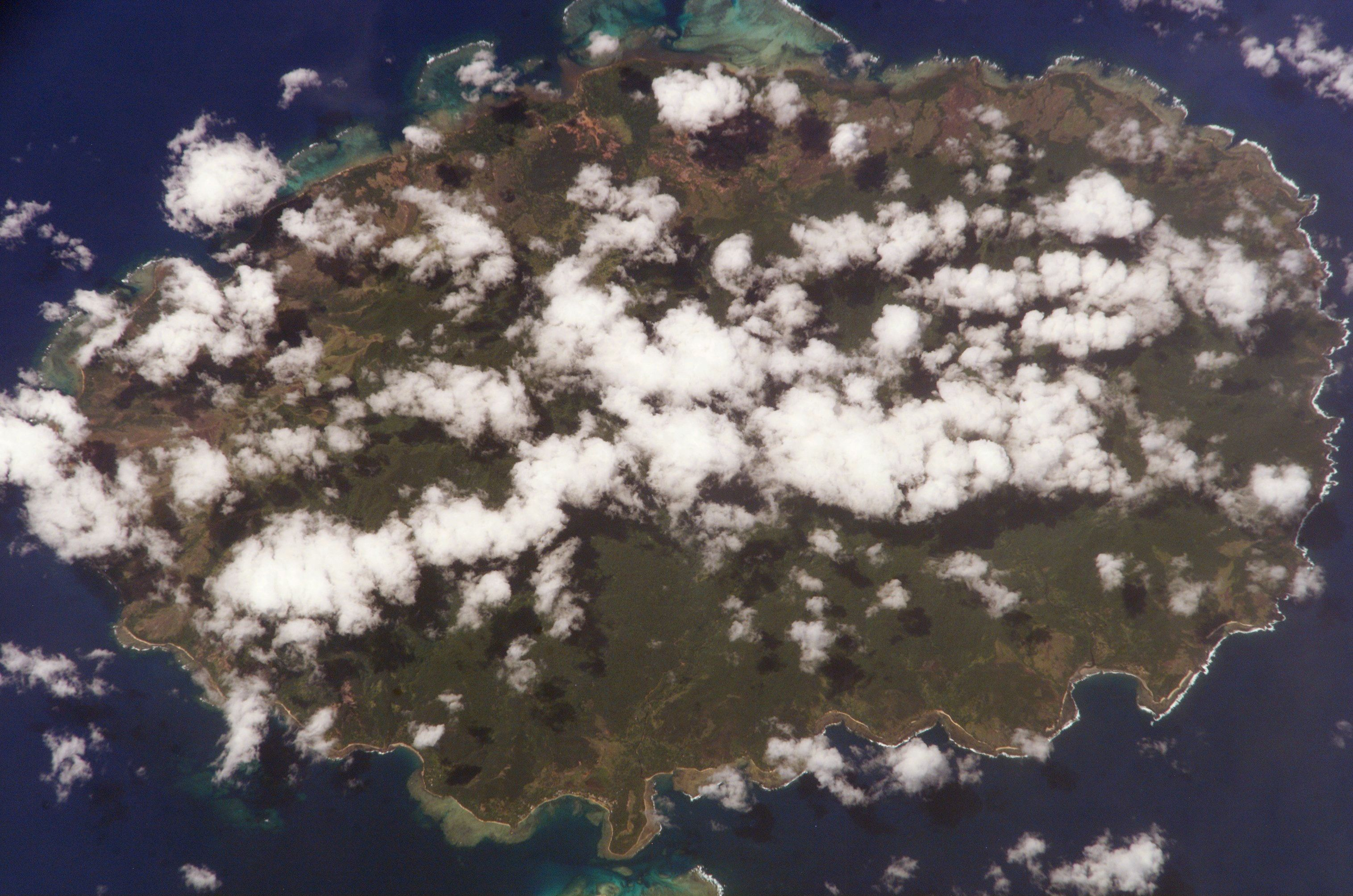 NASA Astronaut Image of Aneityum, Vanuatu